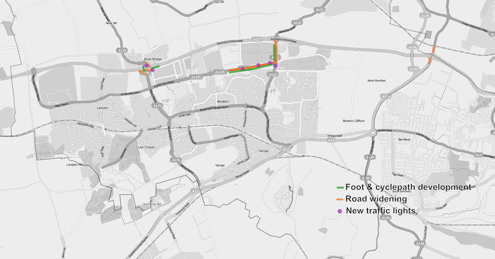 A map showing the proposed developments of the Basildon Enterprise Corridor.